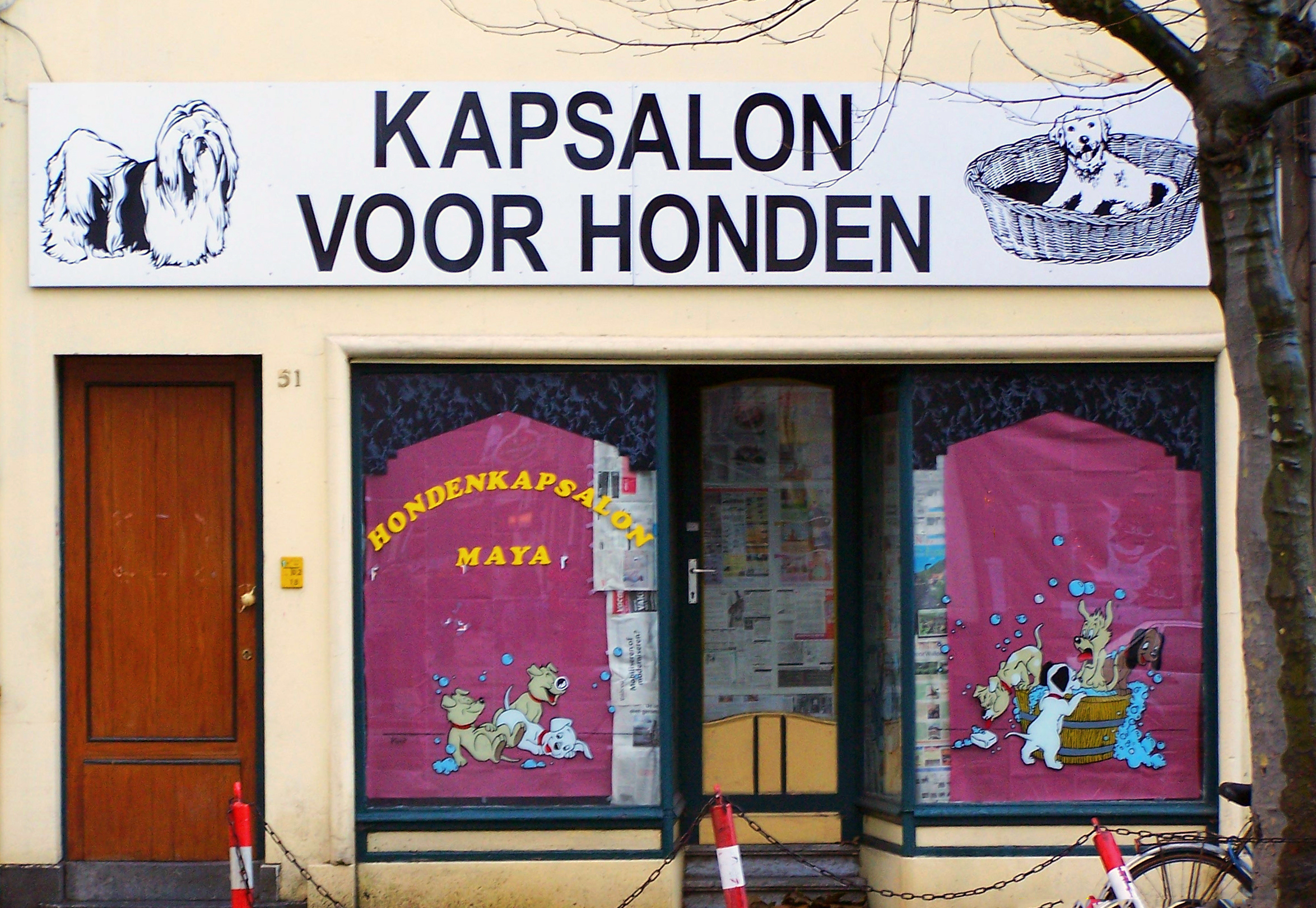 Psi fryzjer